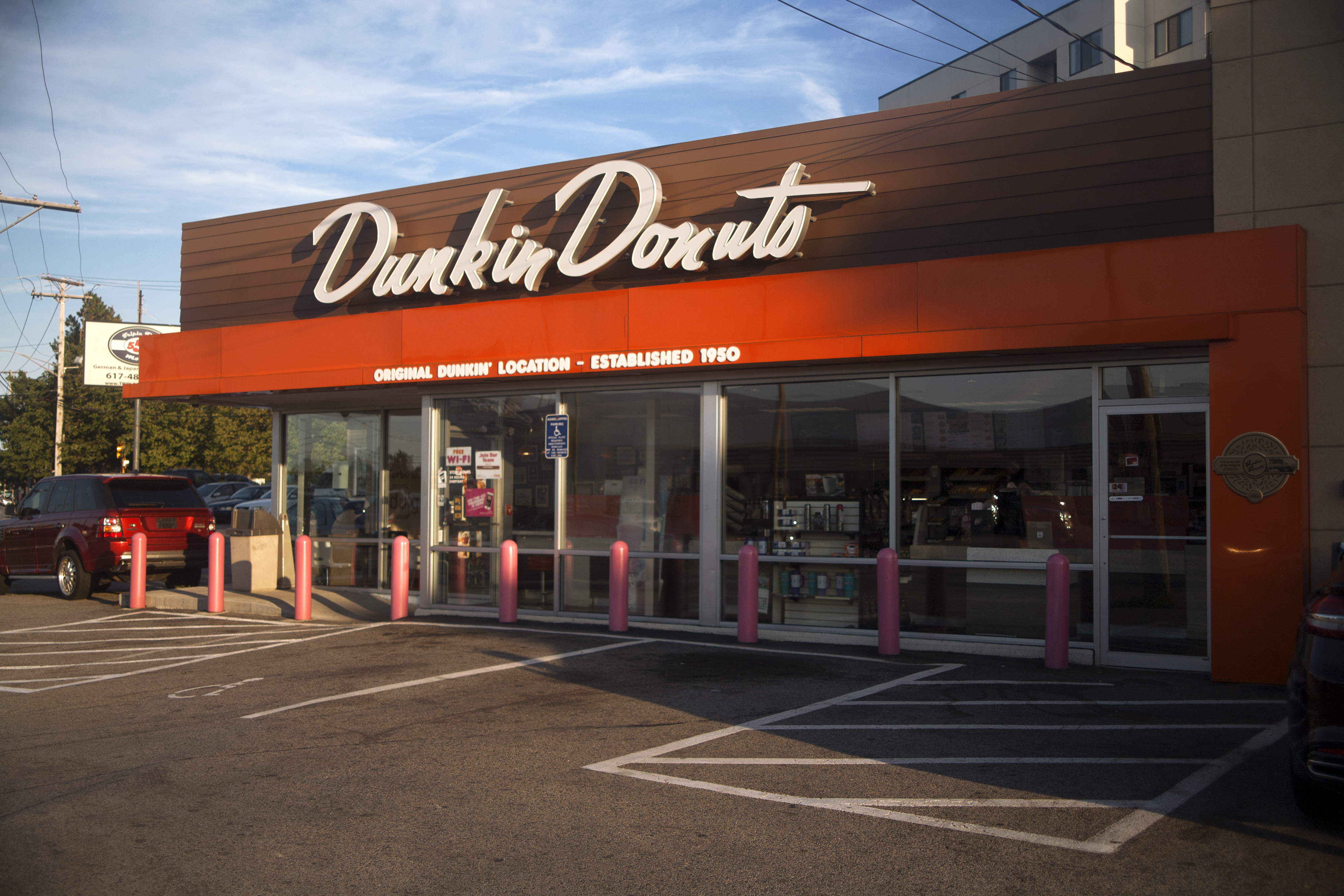 Photo of first Dunkin Donuts location